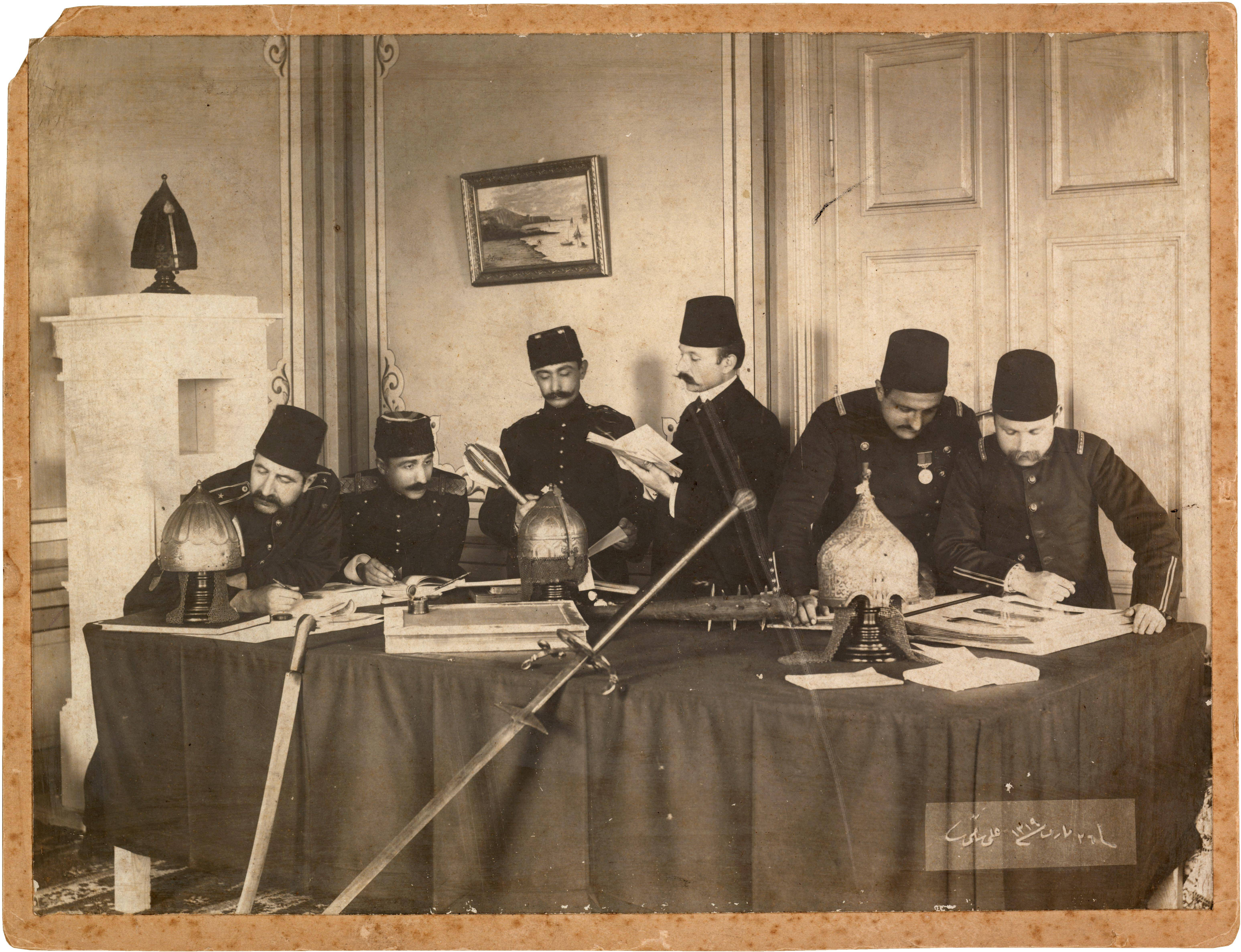 Ottoman Imperial School of Military Engineering, 1903, from the Salt Research archive